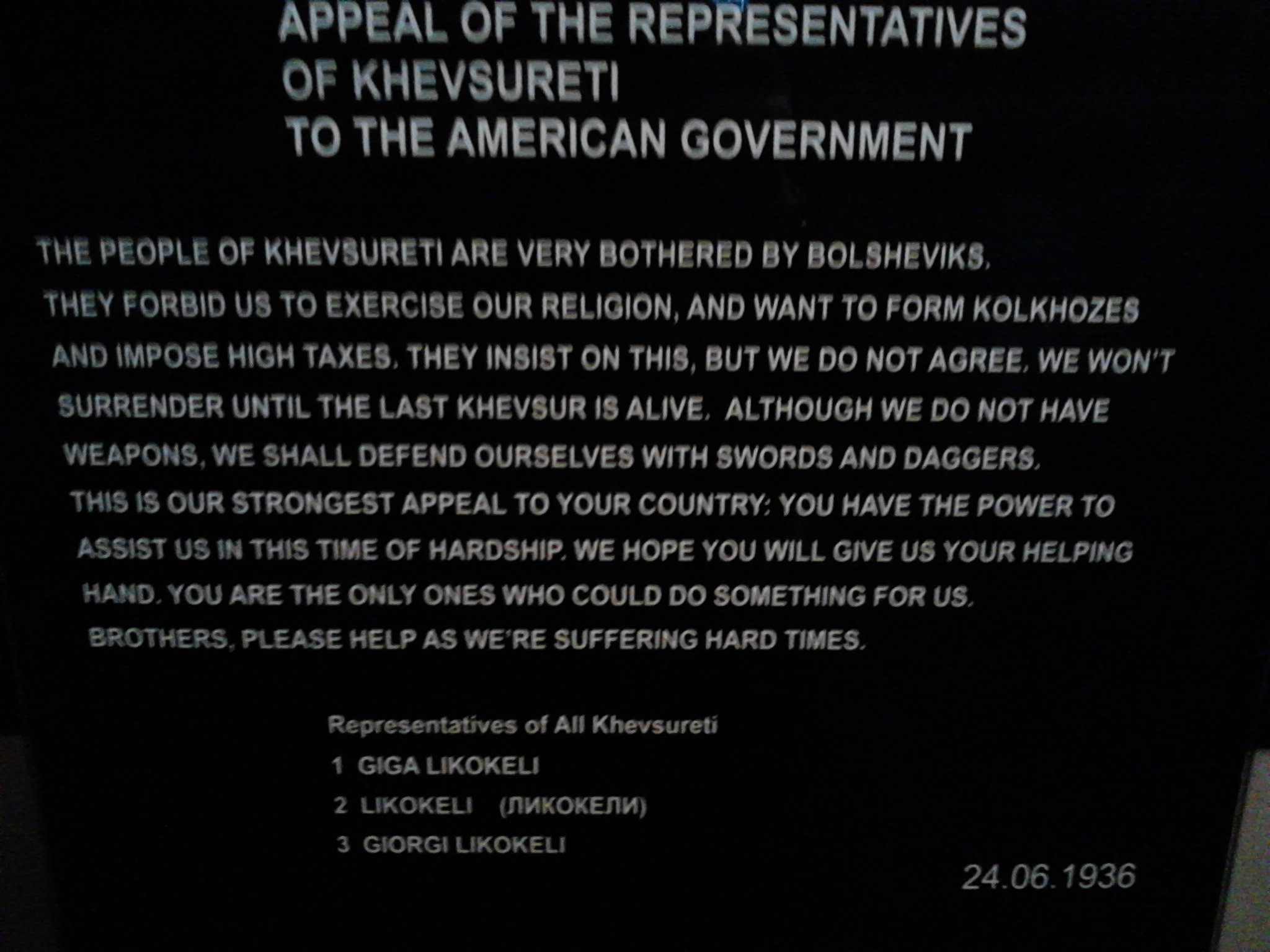 Appeal of the representatives of Khesvusreti to the American Goverment